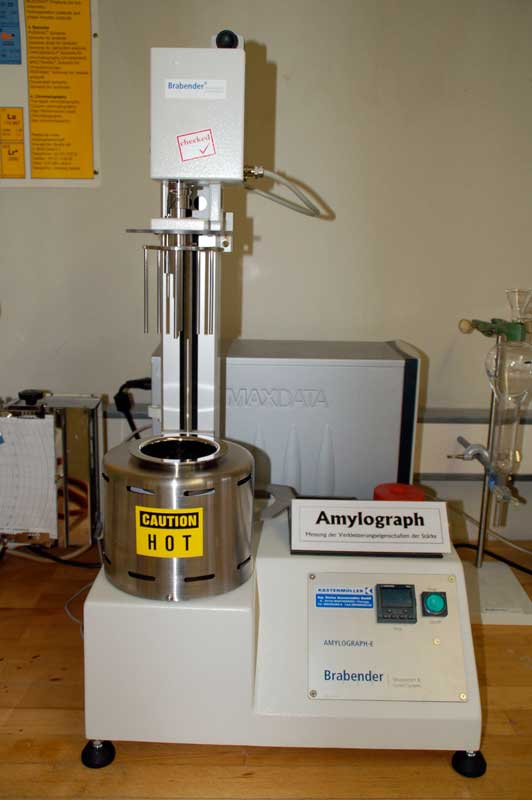 Amylograph – standard instrument for measuring the gelatinization properties and enzyme activity (α-amylase) of flour.